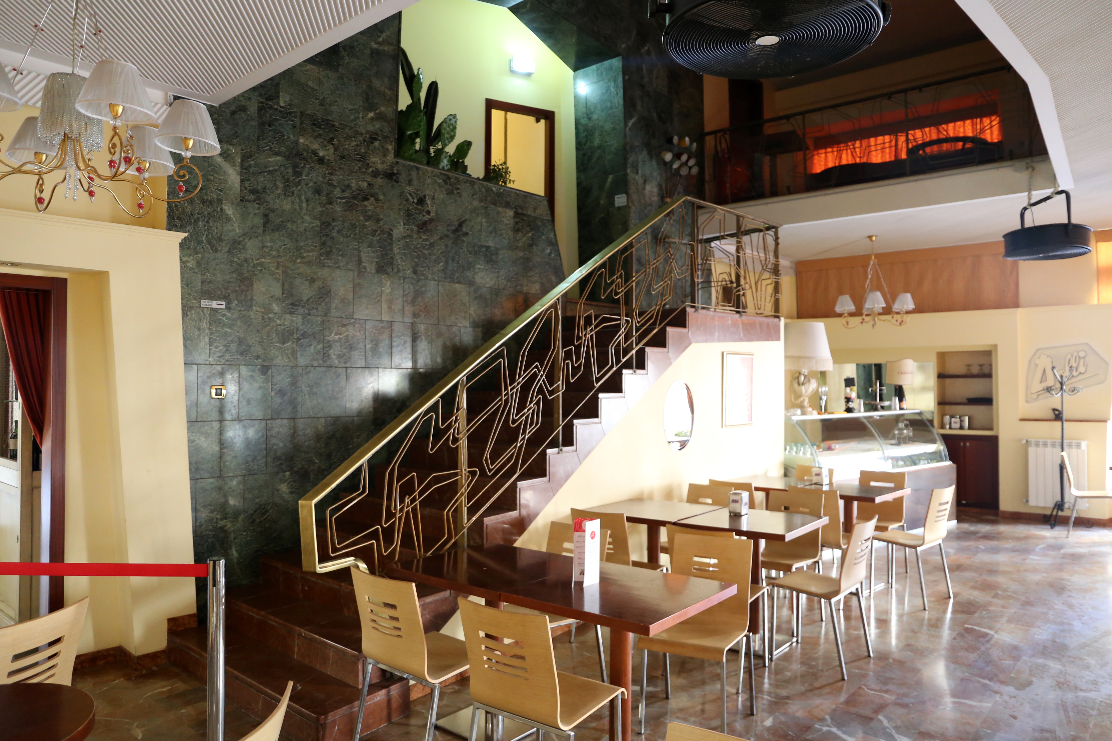 Palazzo Grande (Livorno)